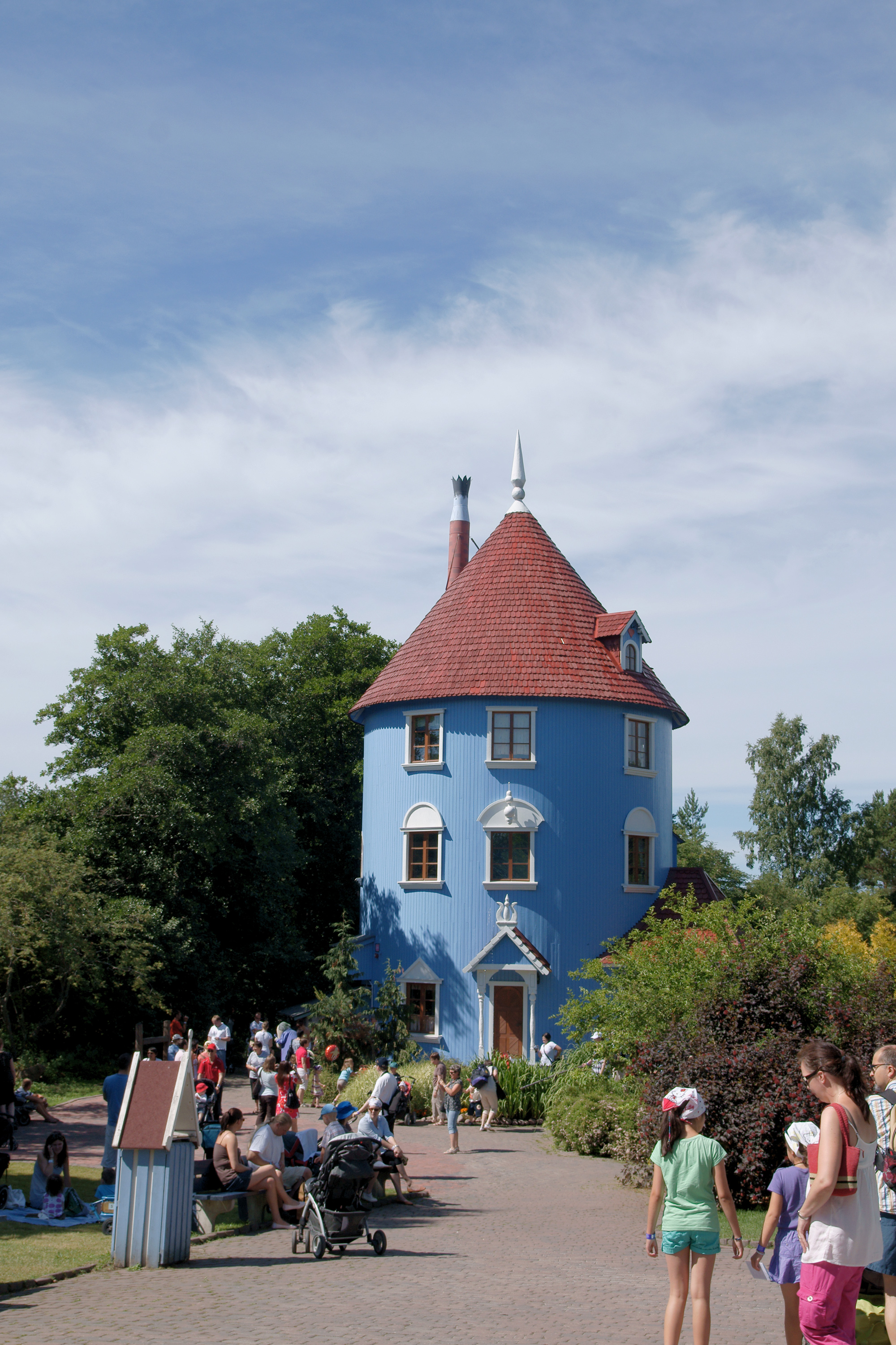 Human-size Moominhouse in Moomin World theme park, Naantali, Finland.